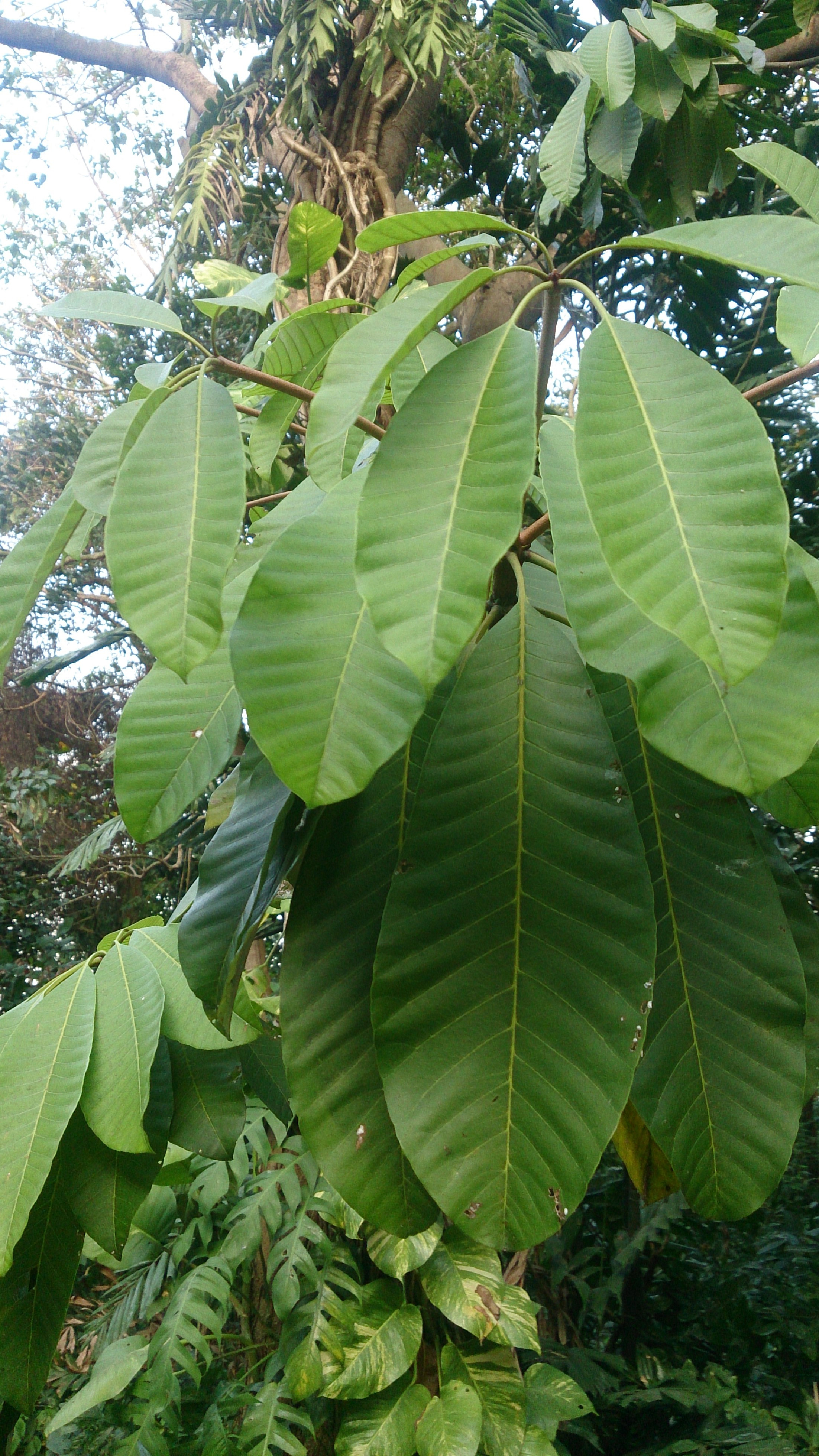 Dyera costulata. Common name: Jelutong. From Malaya, Sumatra.